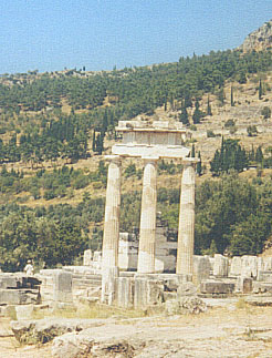 Delphi Tholos